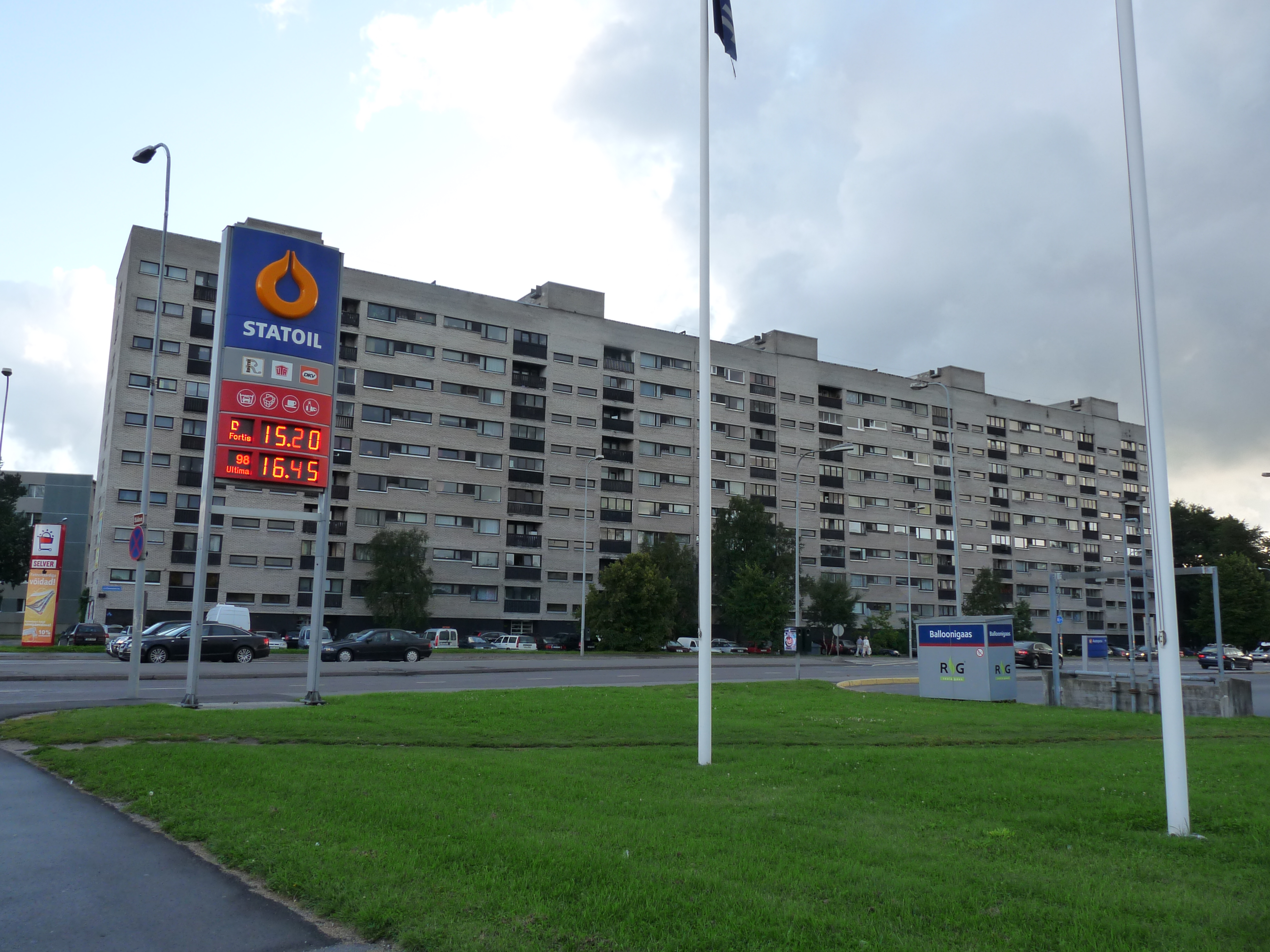 Sõpruse pst 202, Tallinn